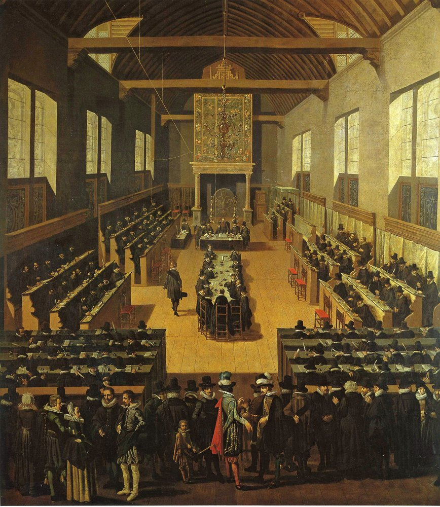 Stedelijk Museum Dordrecht